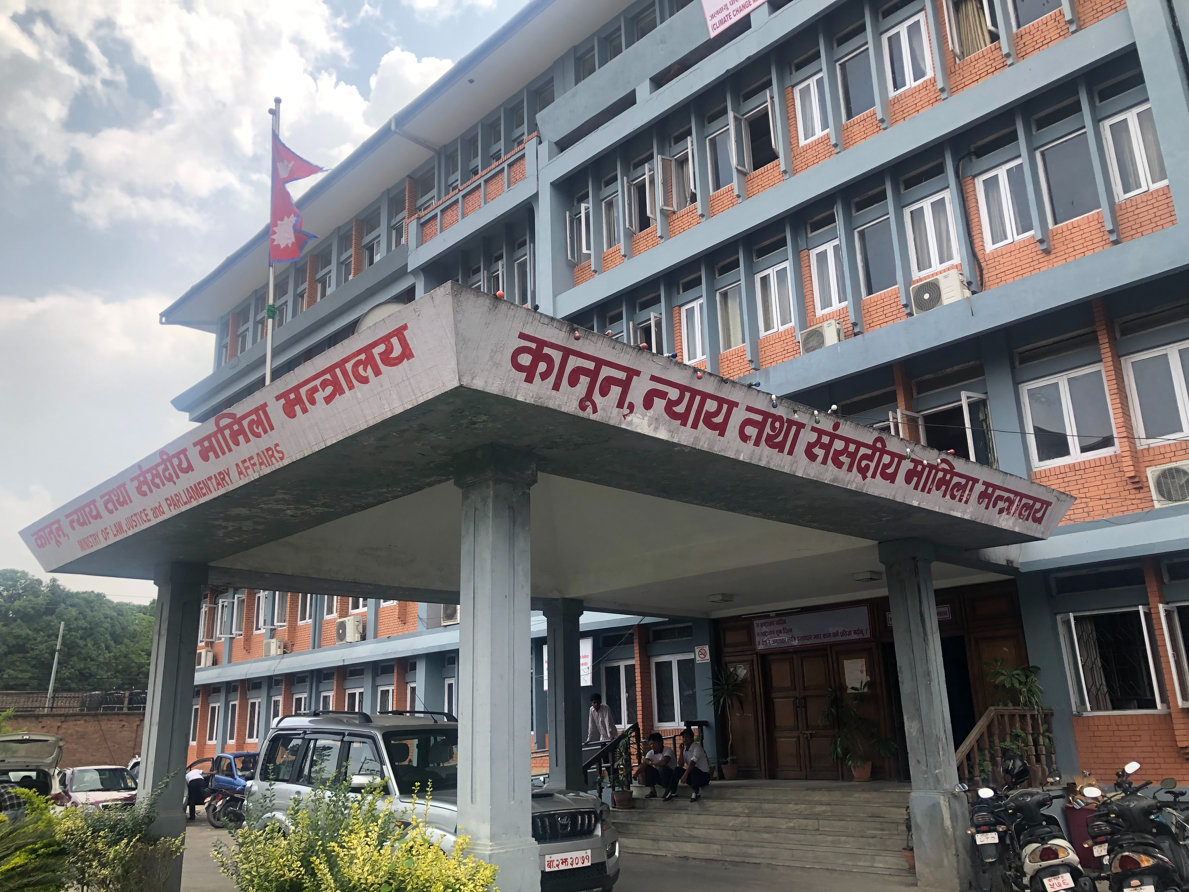 Ministry of law, justice and Parliamentary Affairs of Nepal